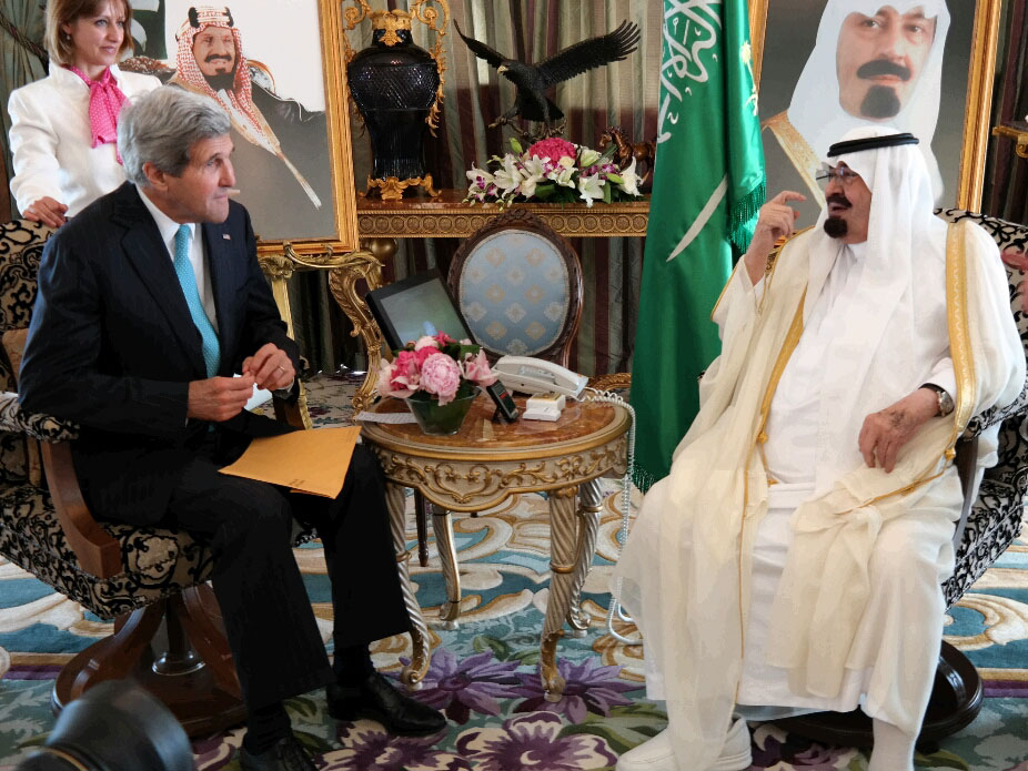 U.S. Secretary of State John Kerry meets with Saudi King Abdullah bin Abdulaziz Al-Saud in Jeddah, Saudi Arabia, on June 27, 2014.